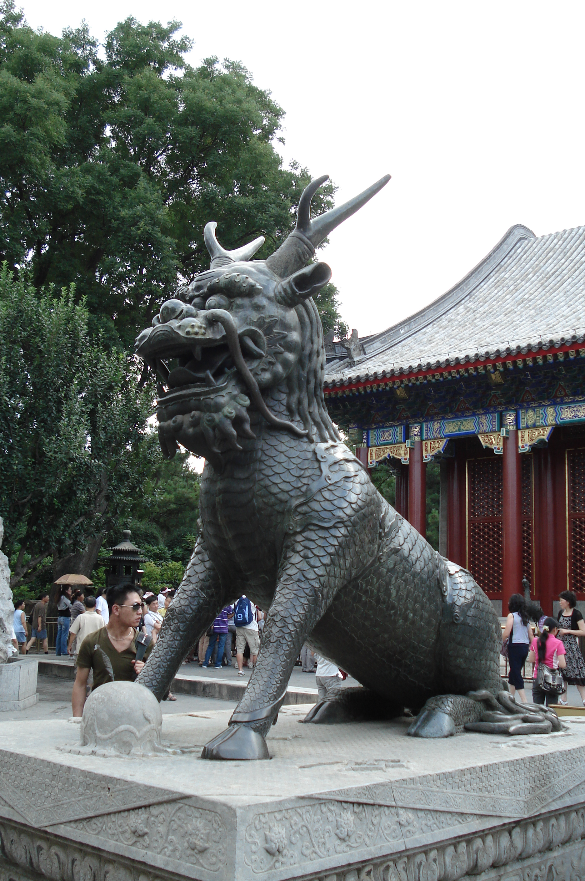 Bronze Qilin statue in Summer Palace